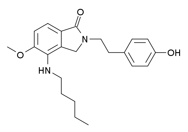 The molecular structure of example 7-31